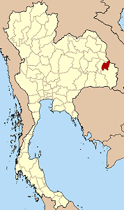 Map of Thailand hightlighting Amnat Charoen province